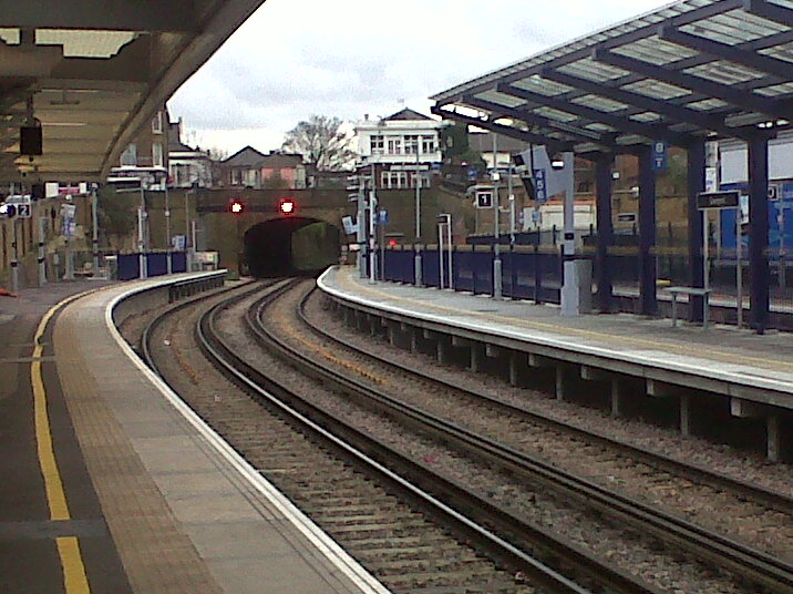 Looking coast bound showing Platform 0 (far right), Platform 1 (right) and Platform 2 (left).